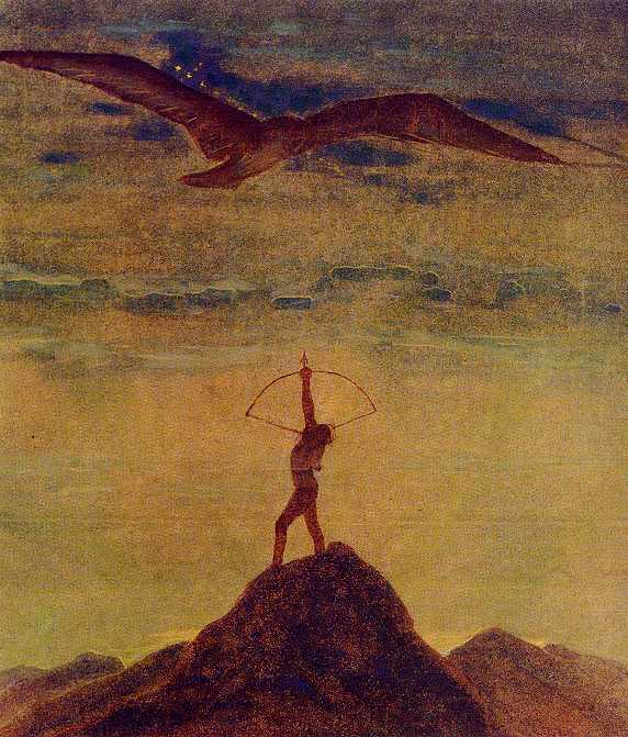 Painting Šaulys (Sagittarius) in the twelve-paiting cycle Zodiakas (Zodiac).